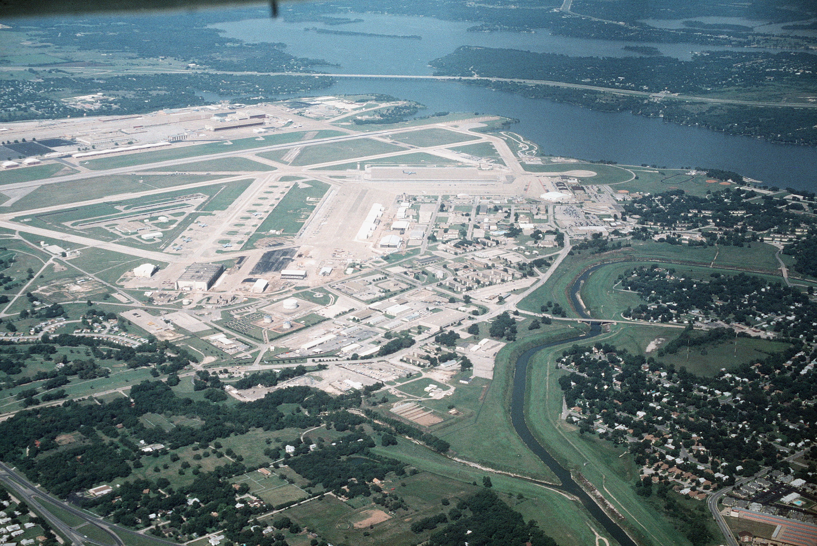 High oblique aerial view looking northwest towards Naval Air Station Fort Worth Joint Reserve Base. This consolidated reserve military airfield is under Joint Reserve Base realignment by the 1993 BRAC commission where the services reserve aviation units for personnel training and deployment are located.